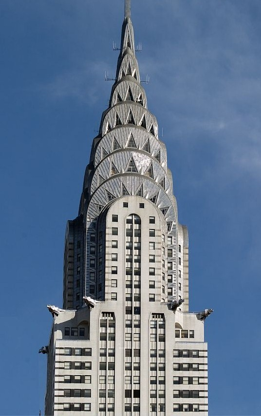 Top of the Chrysler Building, NYC, in 2007